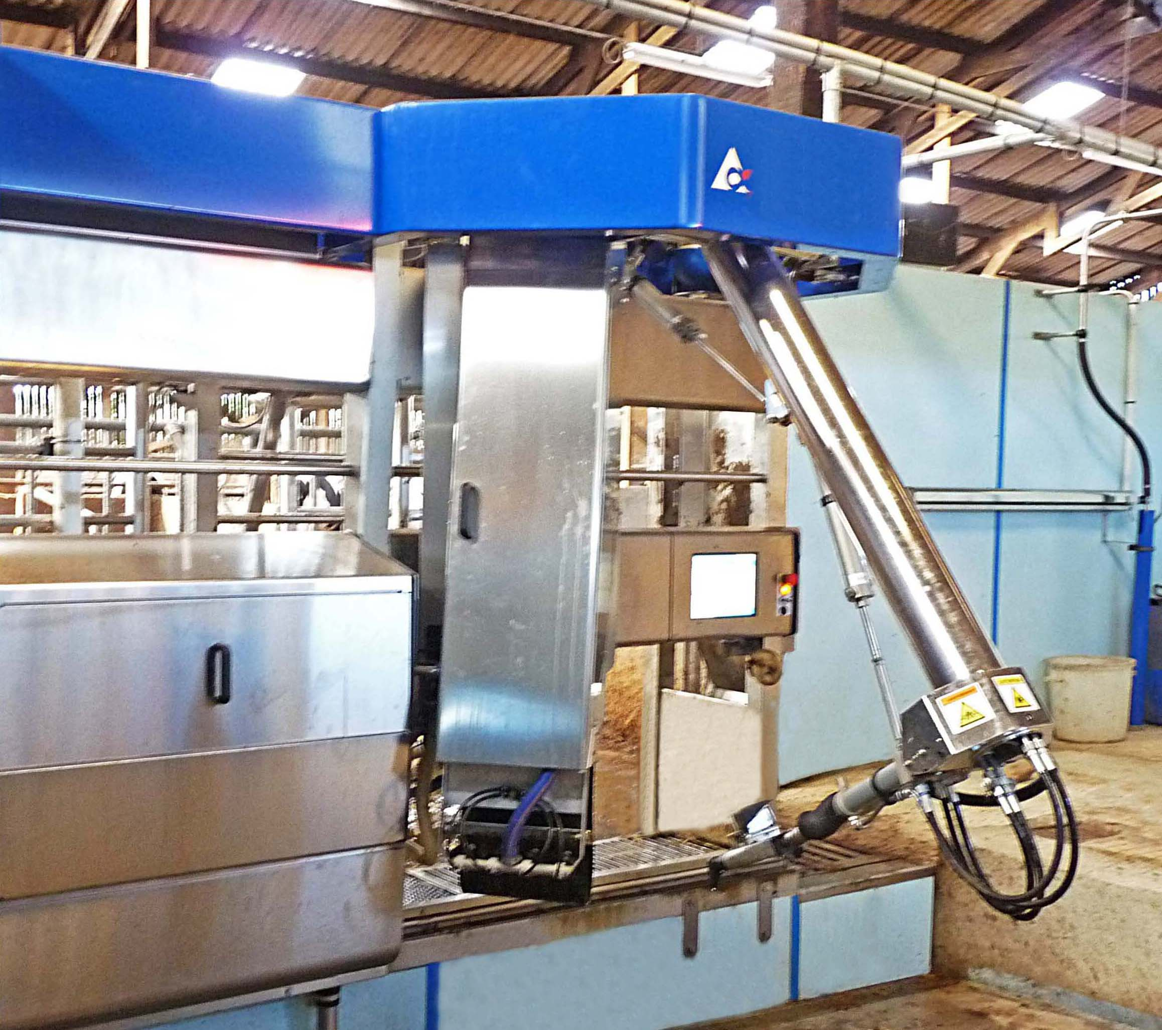 Stainless steel pipes for automatic milking machine in a french farm.